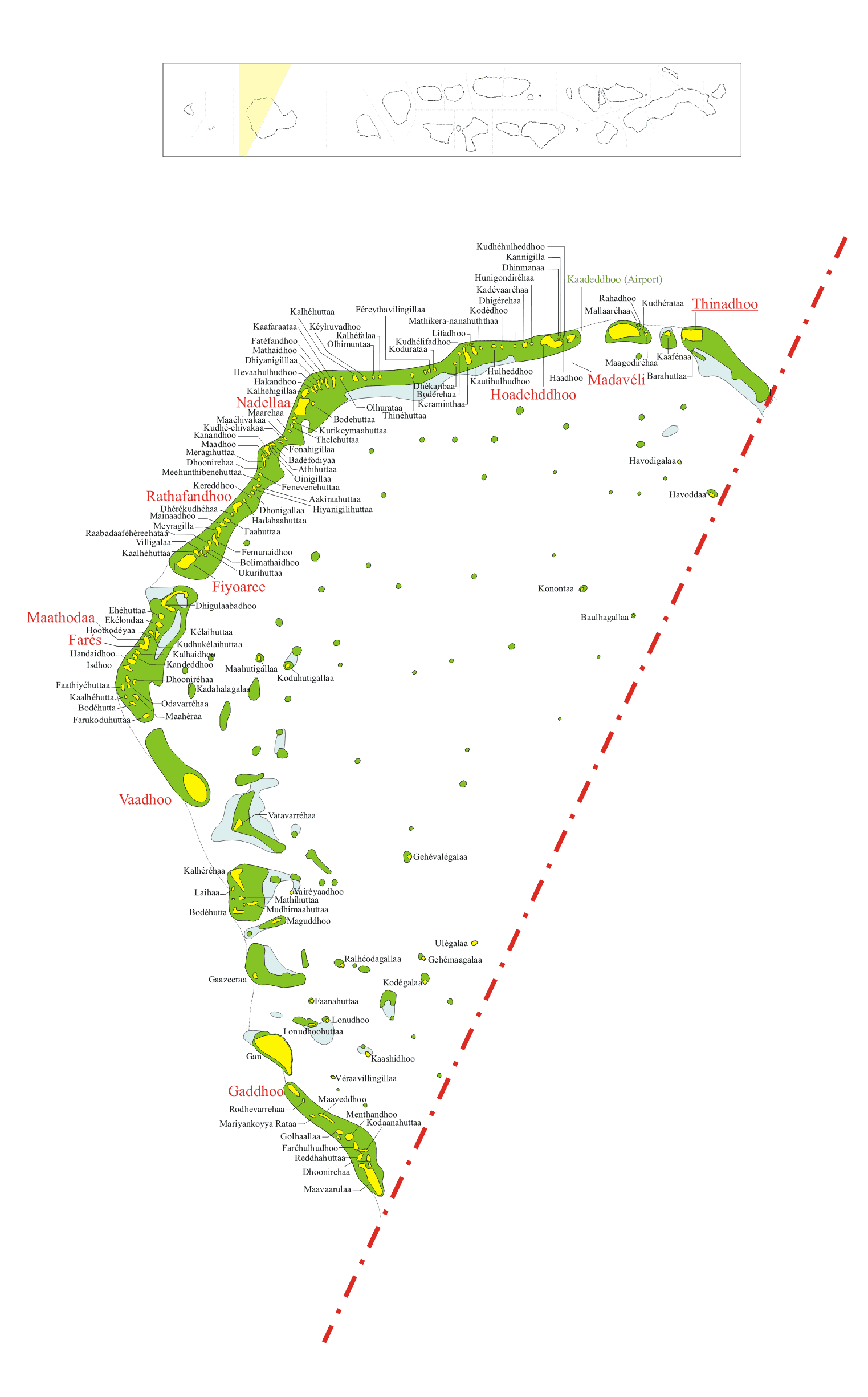 Summary Map of Gaafu_Dhaalu_Atoll Map originally vector'ed by Hassan Waheed, Aabaadhuge of Thinadhoo island. Note: This section of map was extracted and its text was romanized by Oblivious. Special assitance by Waddey and Zuru Converted to PNG by helix84